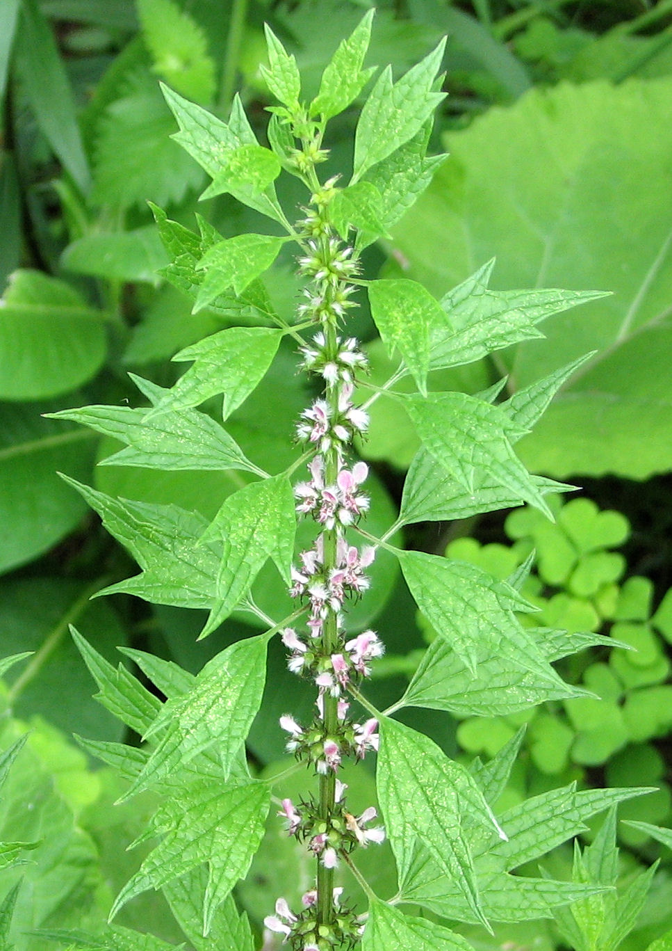 Motherwort (Leonurus cardiaca), Ottawa, Ontario, Canada